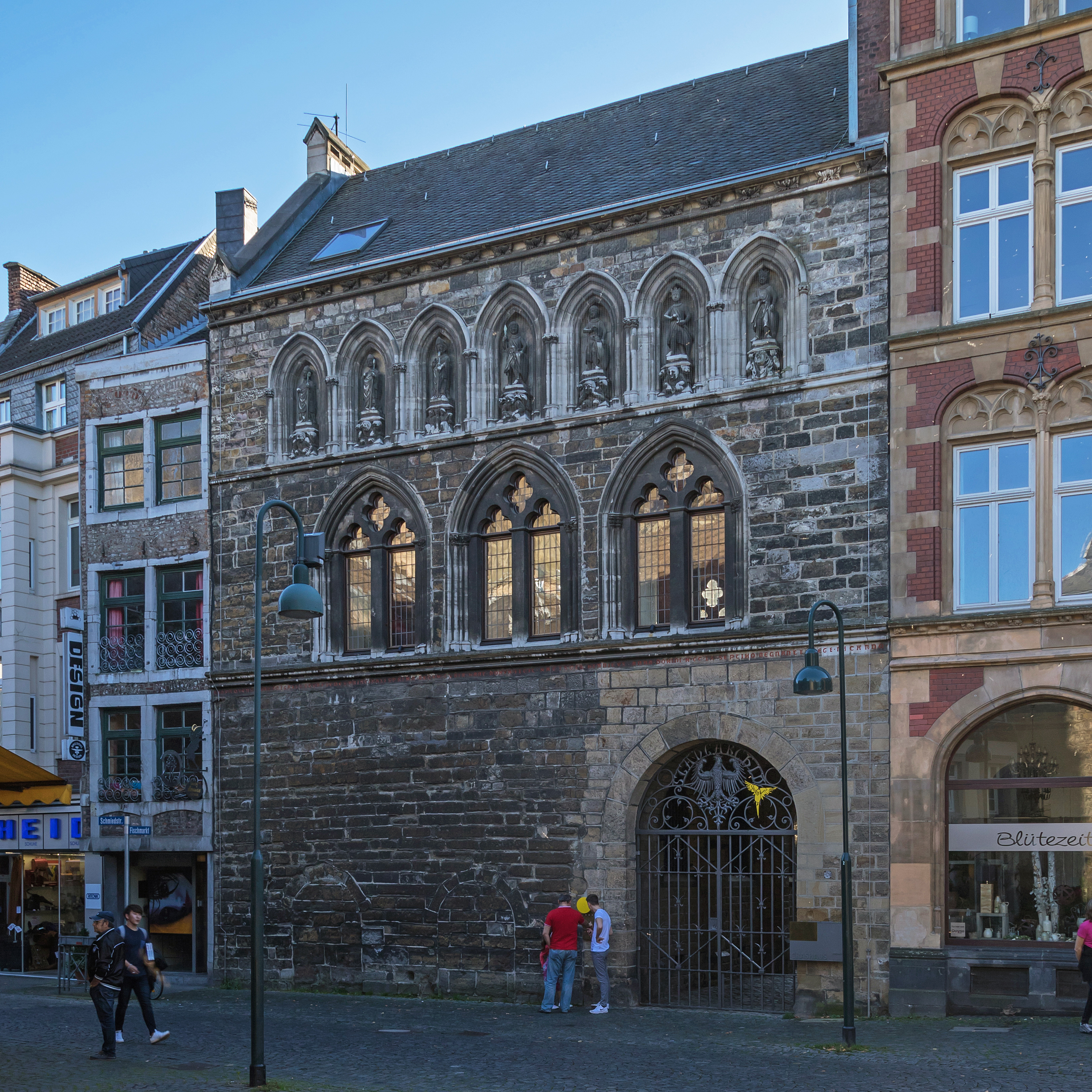 Grashaus in Aachen (Germany)